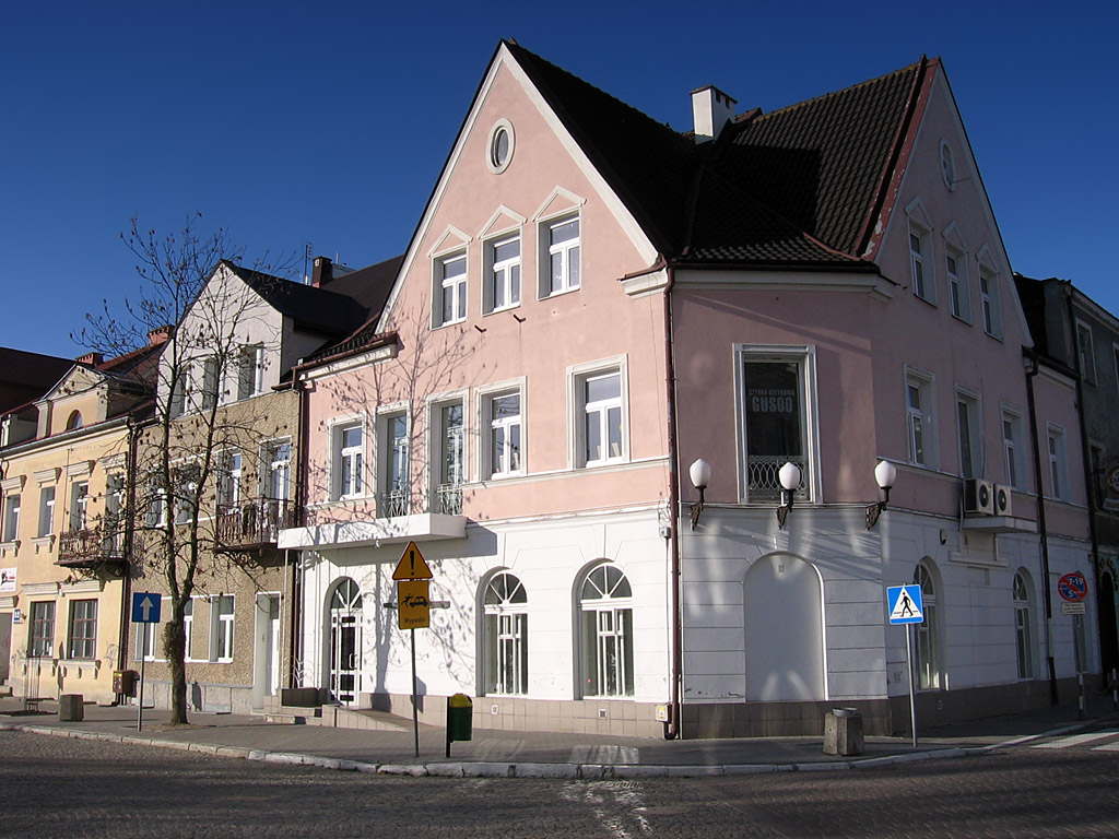 City of Ostroleka (Poland), gallery building..